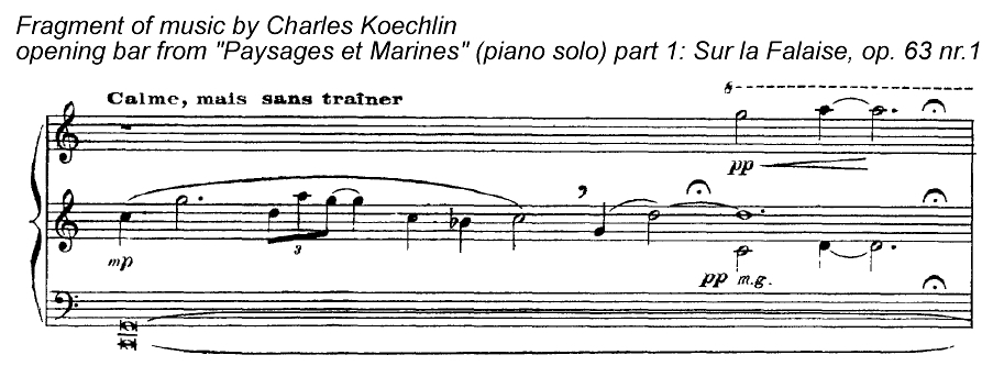 Example of floating rhythm.